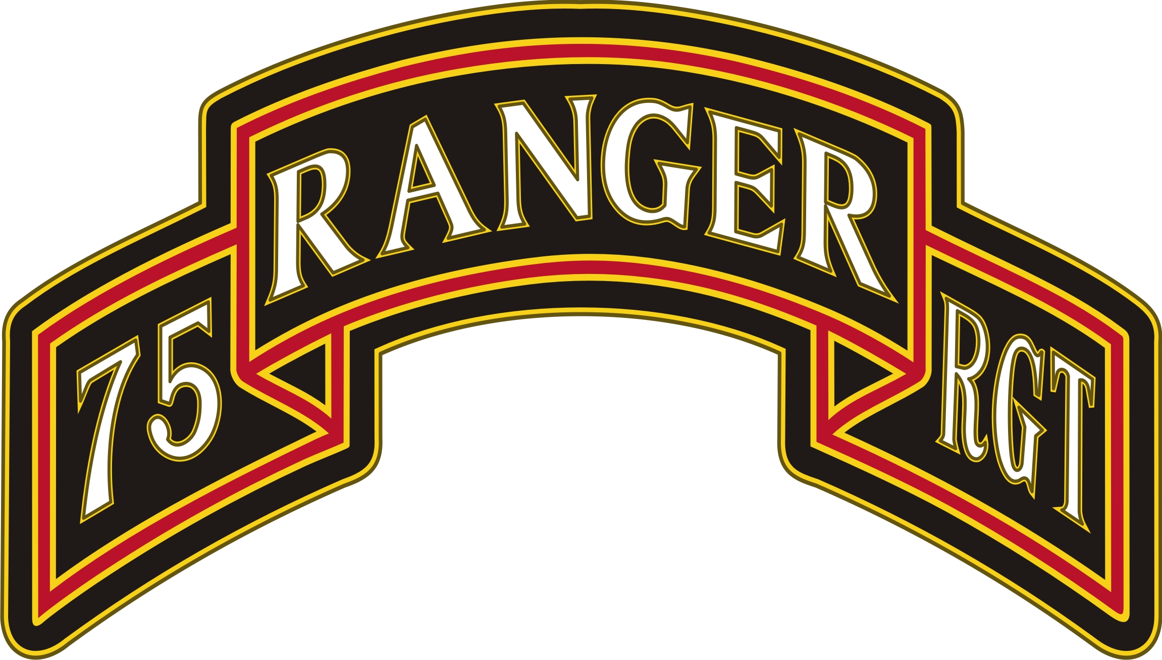 U.S. Army 75th Ranger Regiment Combat Service Identification Badge